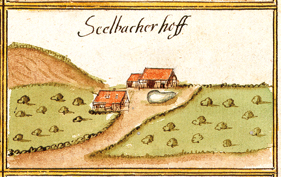 View of Söhlbach, Beilstein, from the forest register books created by Andreas Kieser